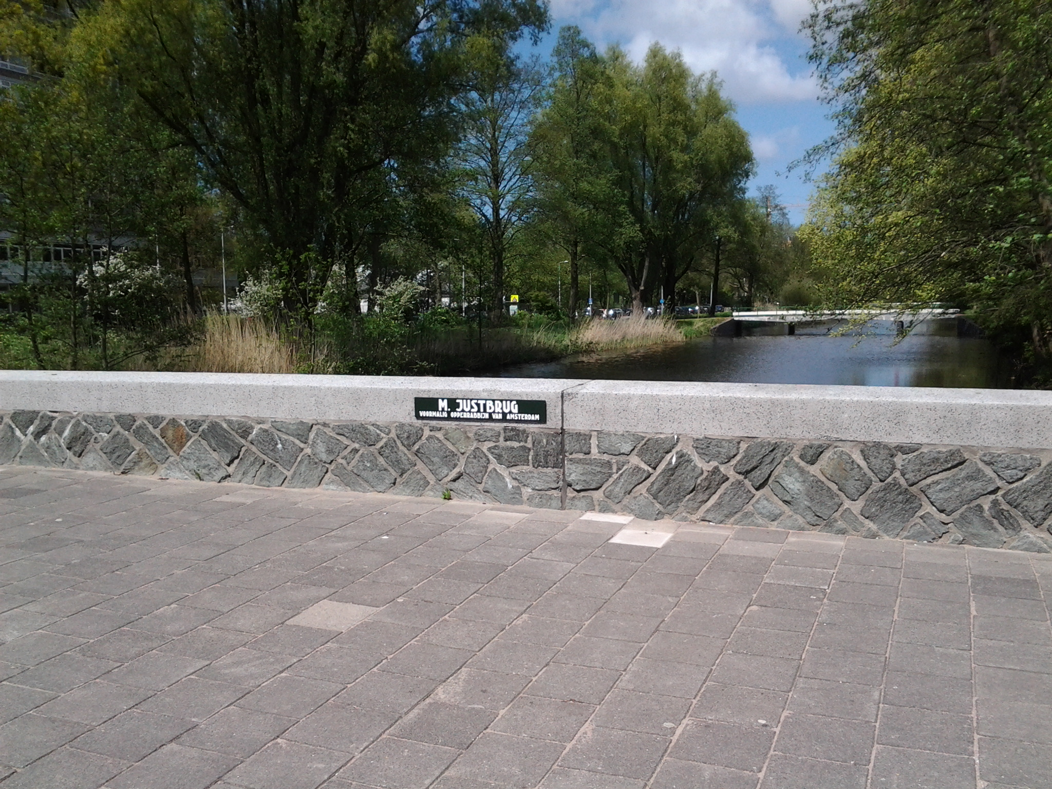 Bridge 803 in Amsterdam (Buitenveldert), in Van Nijenrodeweg, since 2013 officially named "M. Justbrug" in honour of Jewish rabbi, Meir Just (1908-2010).